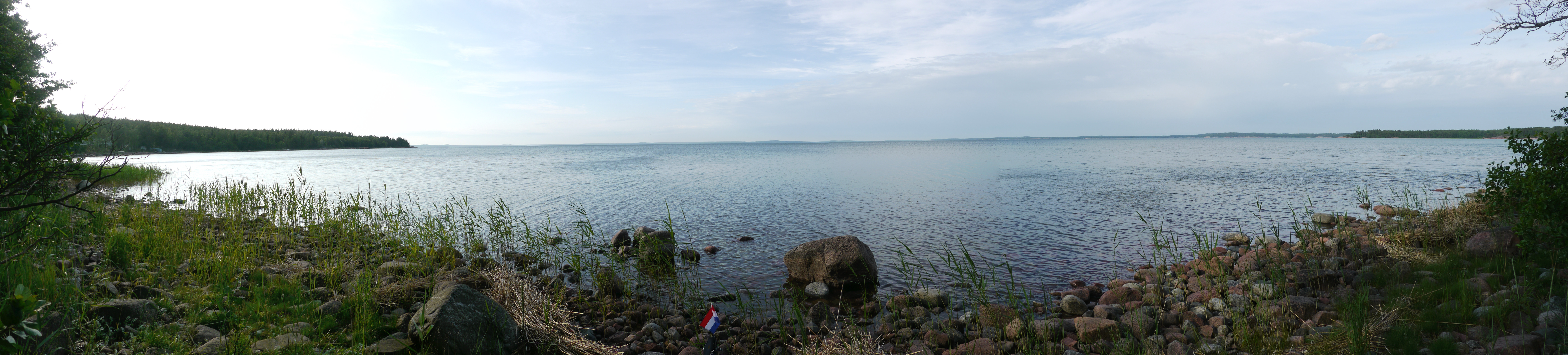 Panoramic view of Lumparn (Åland), seen from the south shore (Lemland)